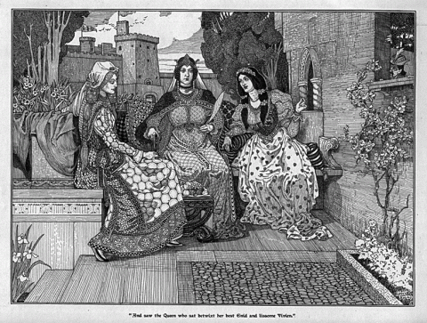 Louis Rhead and George Wooliscroft Rhead's illustration for Idylls of the King: Vivien, Elaine, Enid, Guinevere (1898)